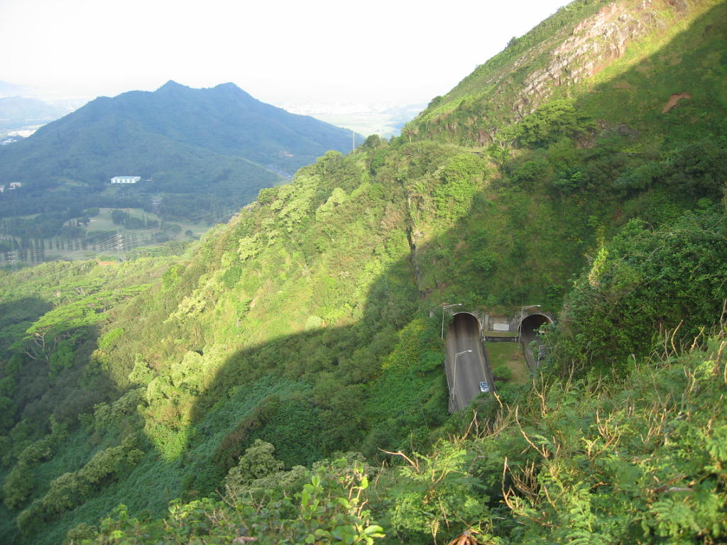 View from Pali Lookout in Oahu, Hawaii